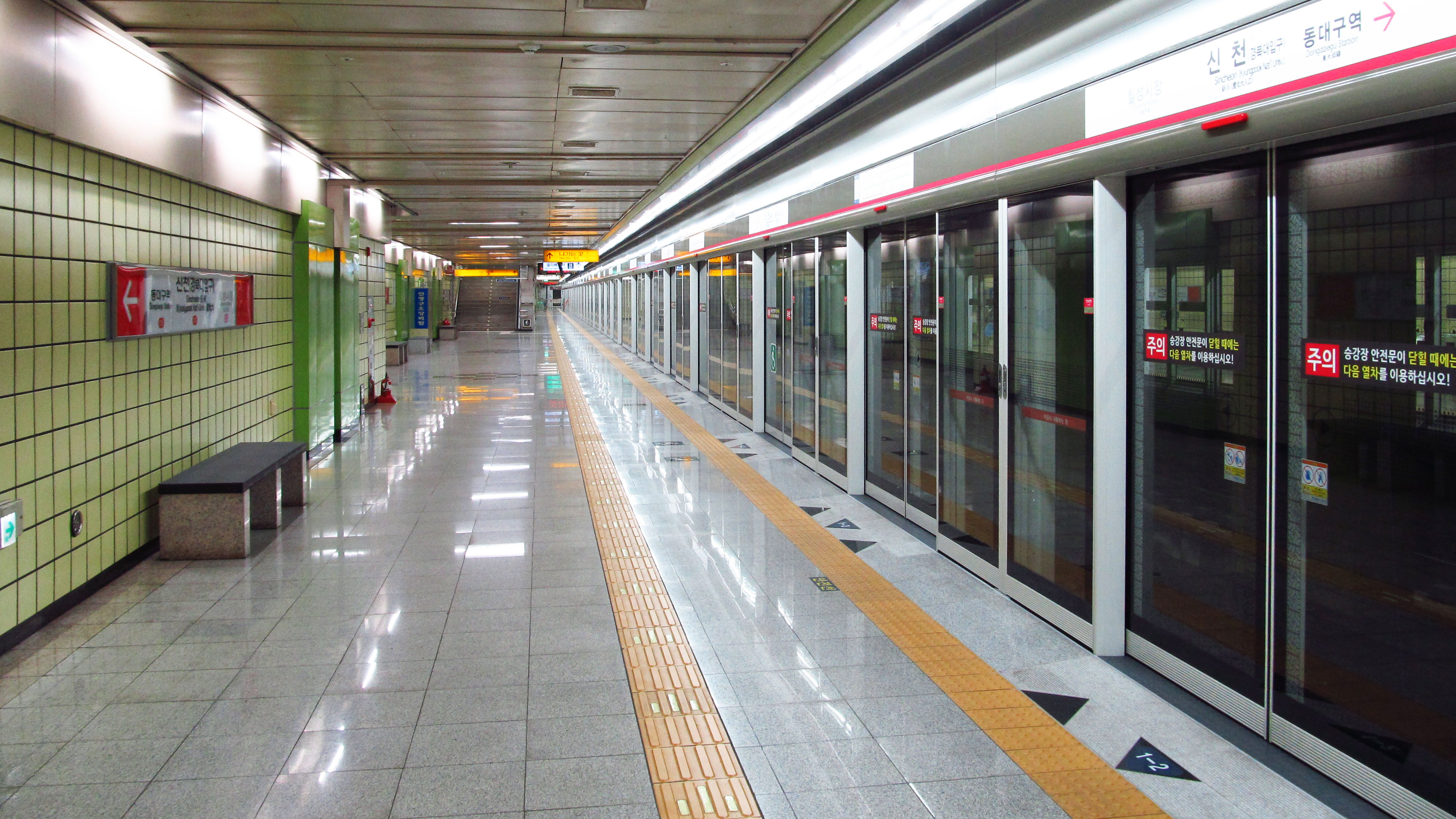 The platform at Sincheon Station on the Daegu Metro Line 1, for Dongdaegu Station, Ansim